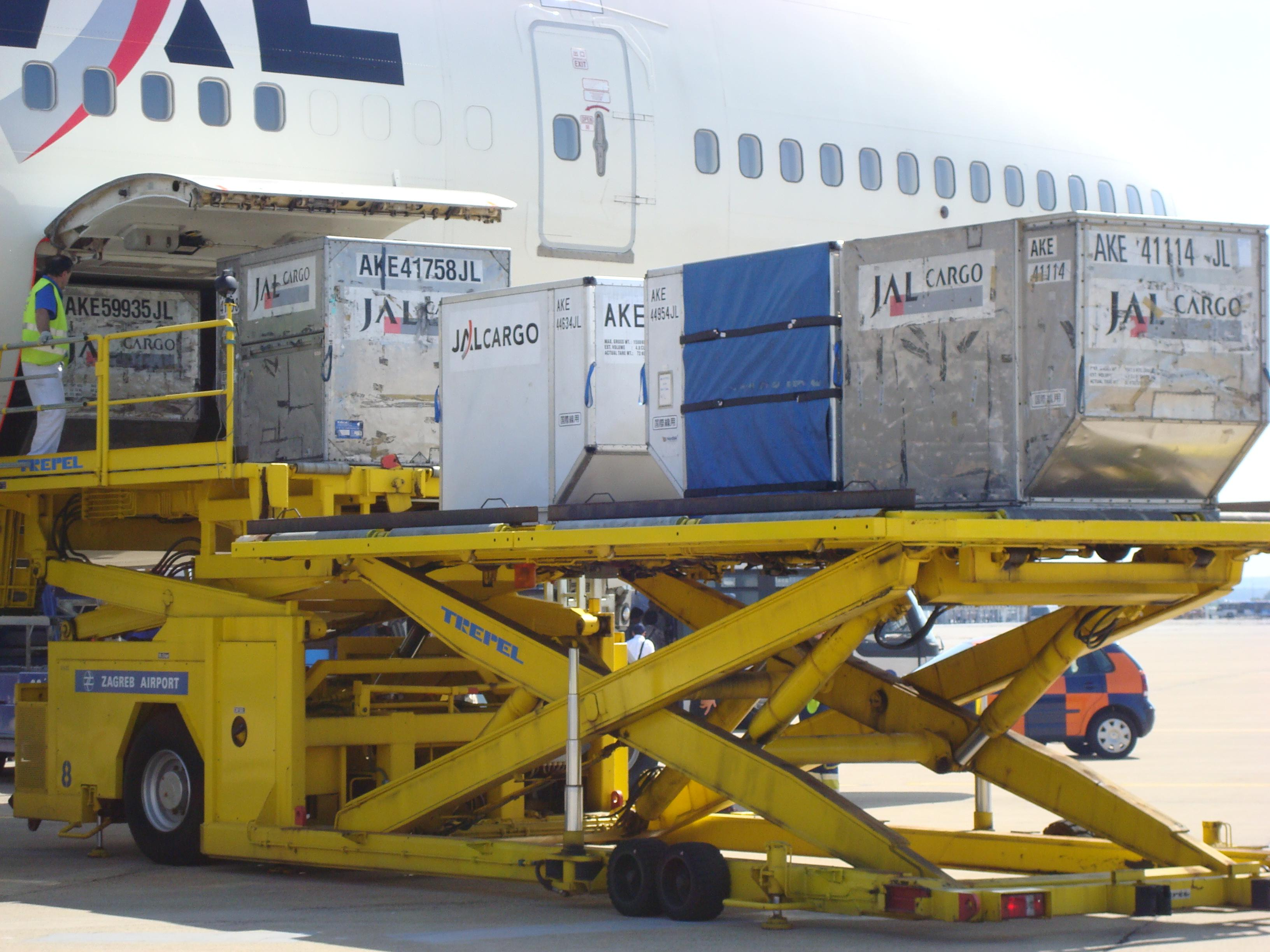 LD3 containers being unloaded from the front cargo hold of a JAL B747-400